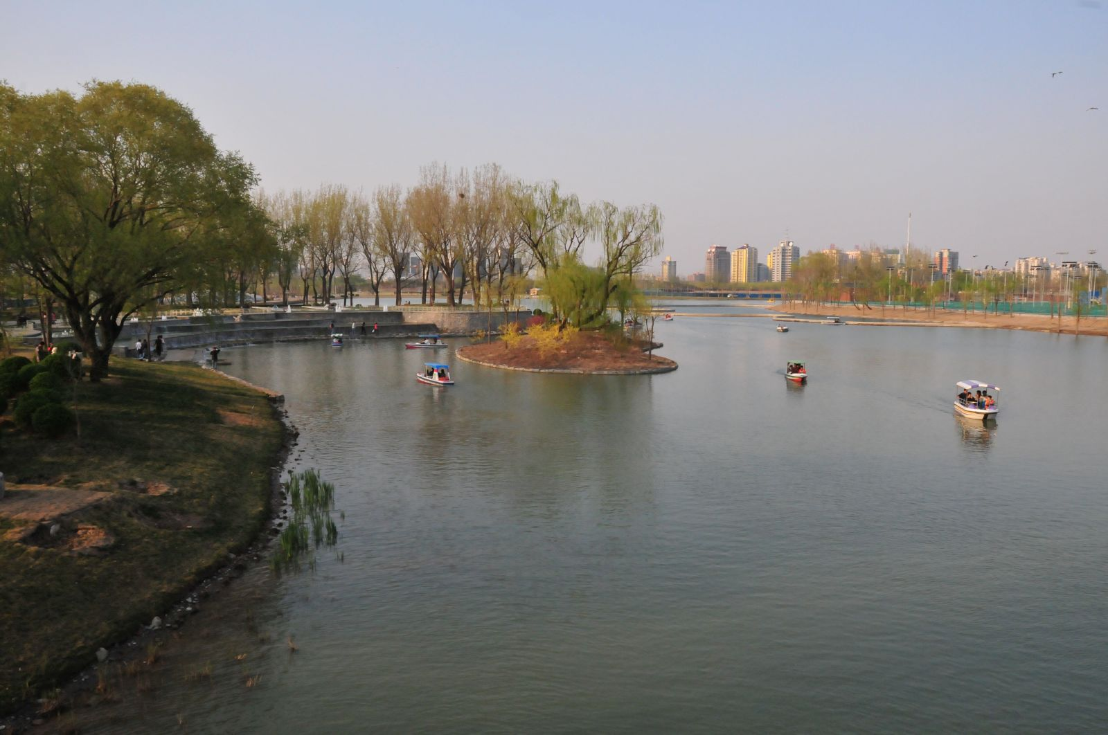 The Chaoyang Park in Beijing